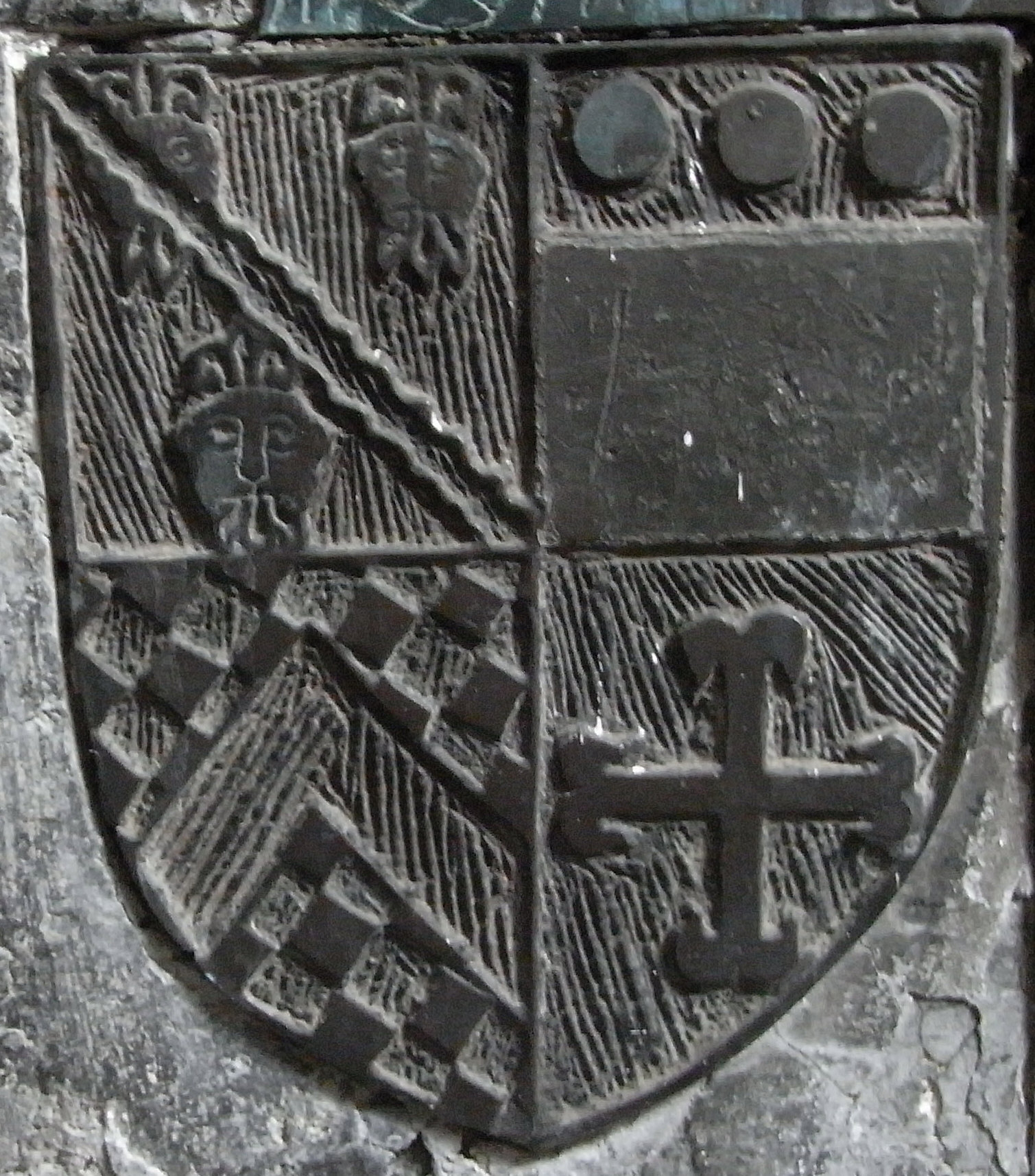 Denys quartered escutcheon (detail), 1505, Olveston Church, Gloucestershire: 1st quarter: Denys; 2nd q.: Russell; 3rd q.: Gorges Modern; 4th q.: Ferre.